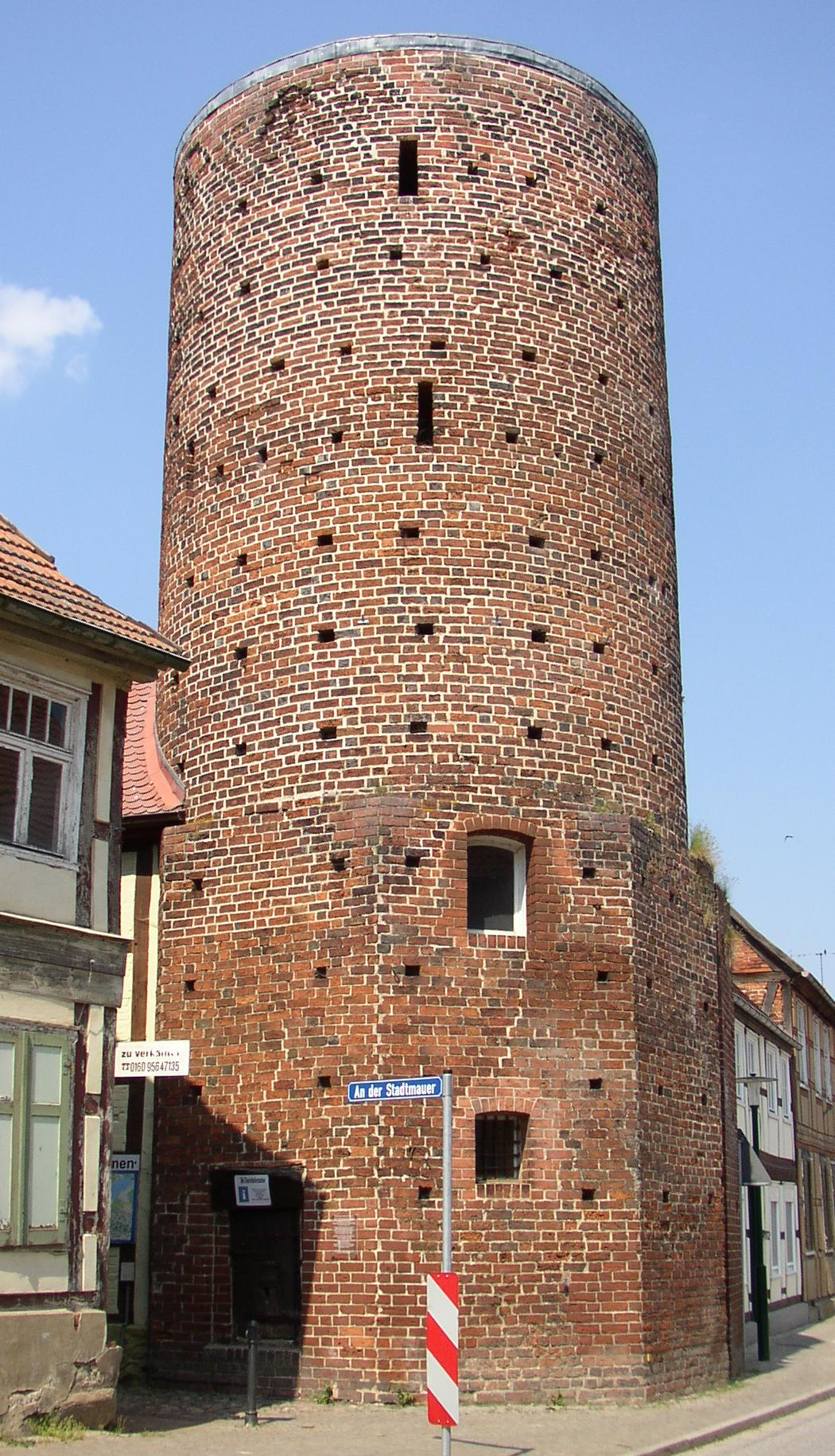 Tower in Lenzen in Brandenburg, Germany